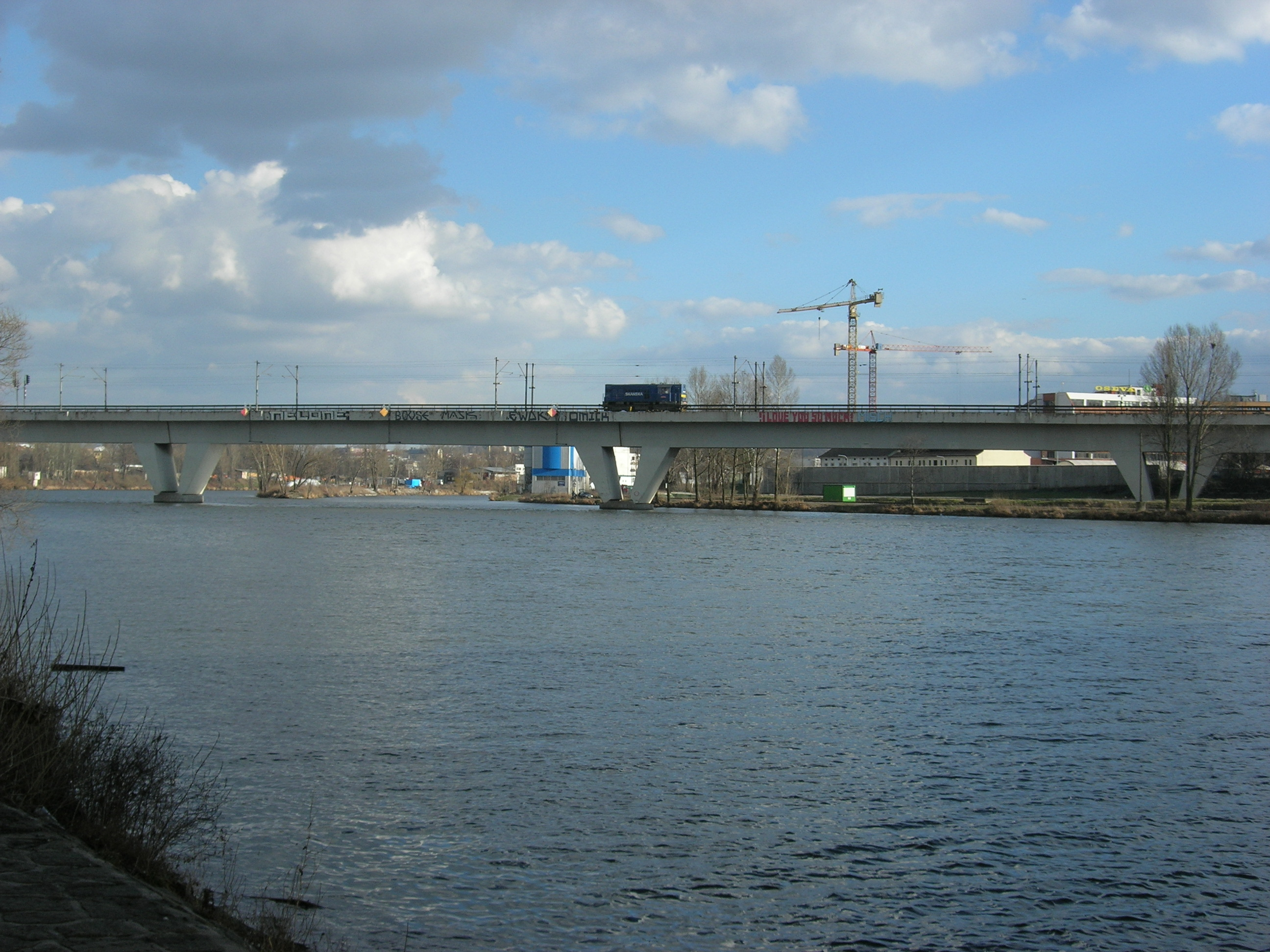 Railway bridge under Bulovka